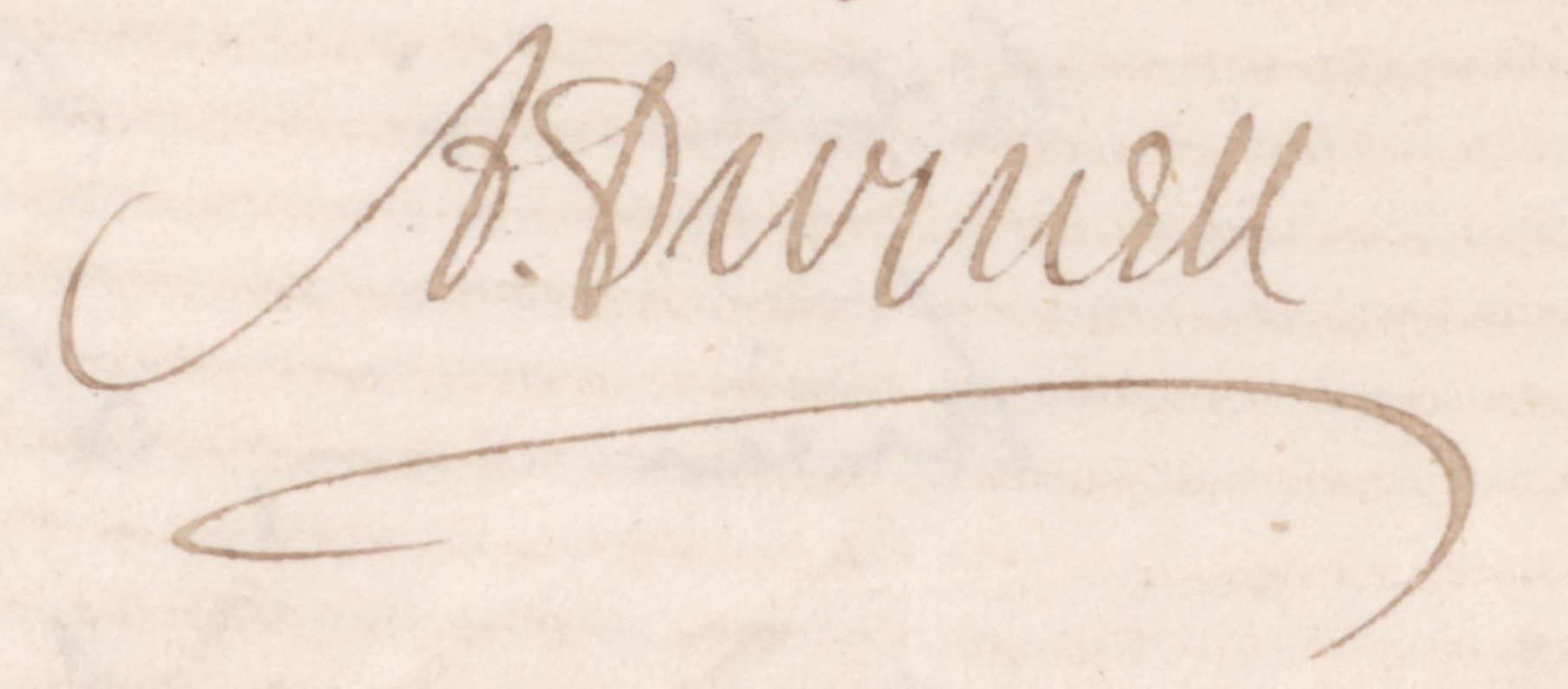 Signature Arthur Burnell (1840-1882), indologist and judge (ICS), on a letter to Dr.Rost, librarian at the Indian Office Library, London; from Tanjore, dated 3.2.1874